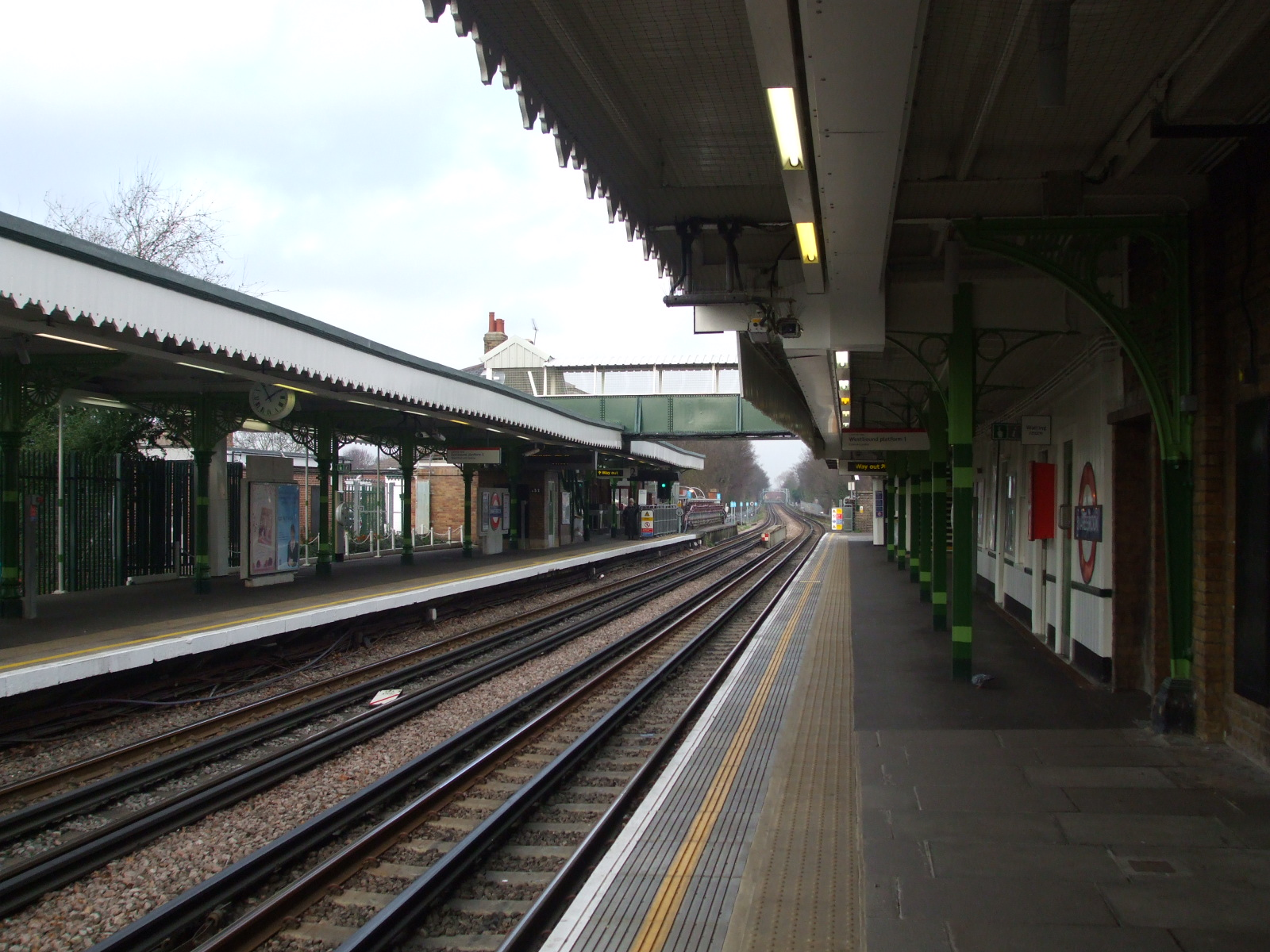 Snaresbrook tube station looking north ("eastbound")